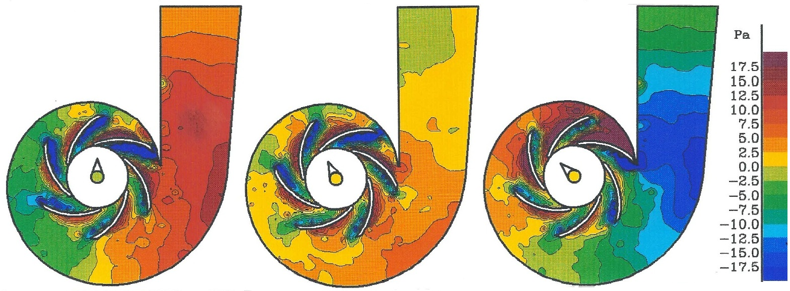 Non stationary pressure field in a centrifugal turbomachinery.